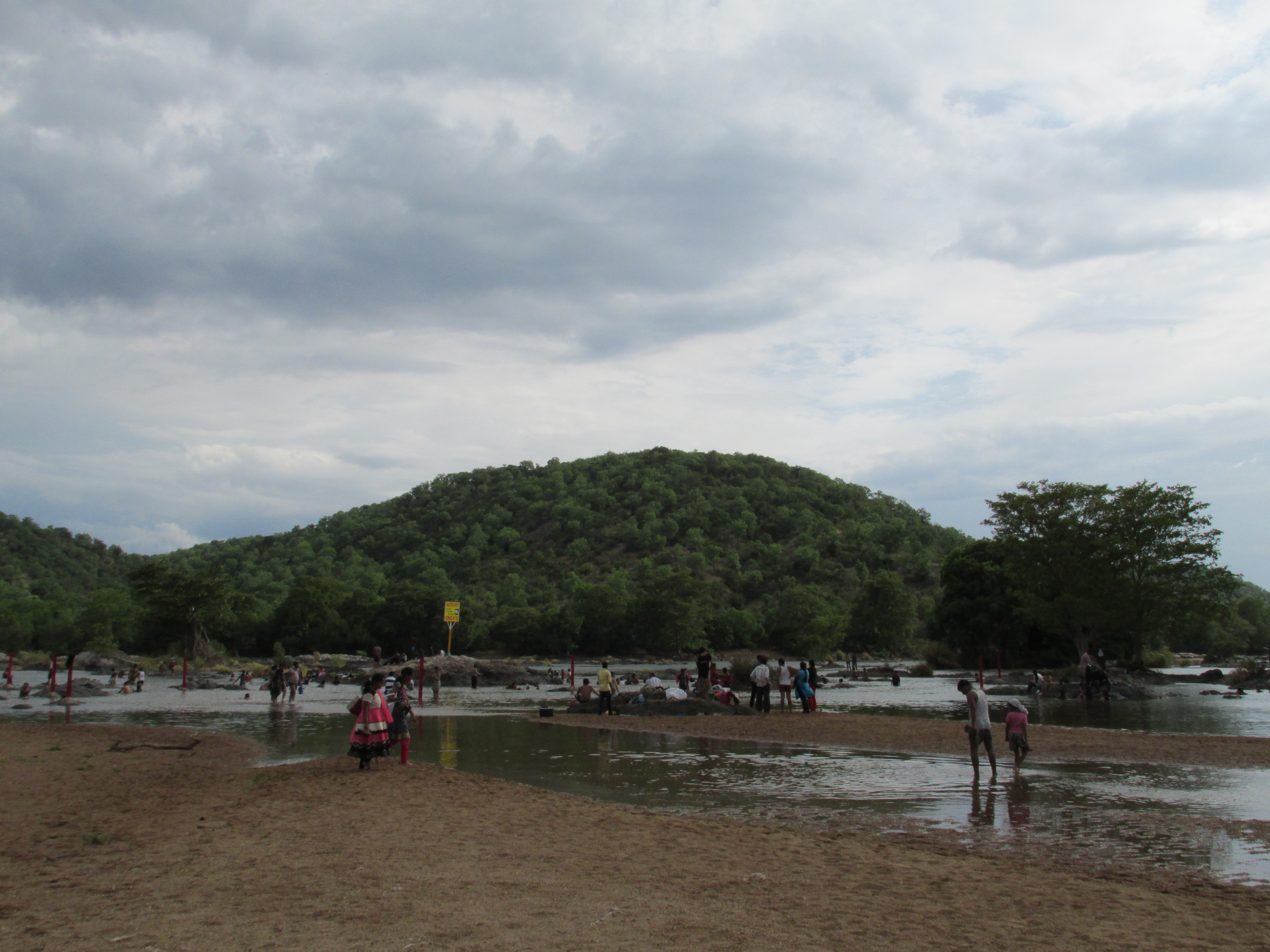 Sangam-Mekedatu waterfall and wild life reservation in karnataka near bangalore . around 120 k/m from bangalore . it's mind blowing nature